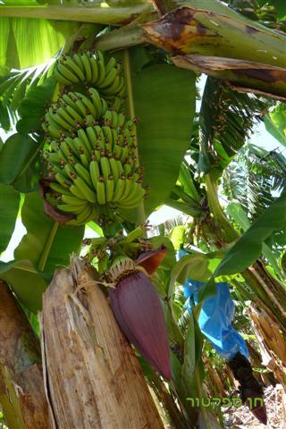 fruit trees